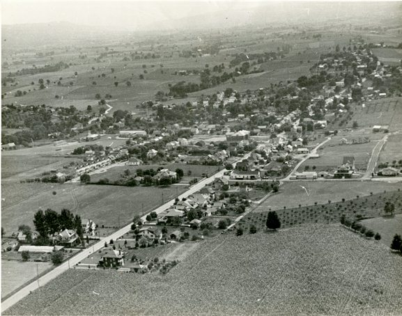 Citation: Mennonite General Conference Photographs, 1927-1959. HM4-66 Box 1 Folder 3. Mennonite Church USA Archives - Goshen. Goshen, Indiana.